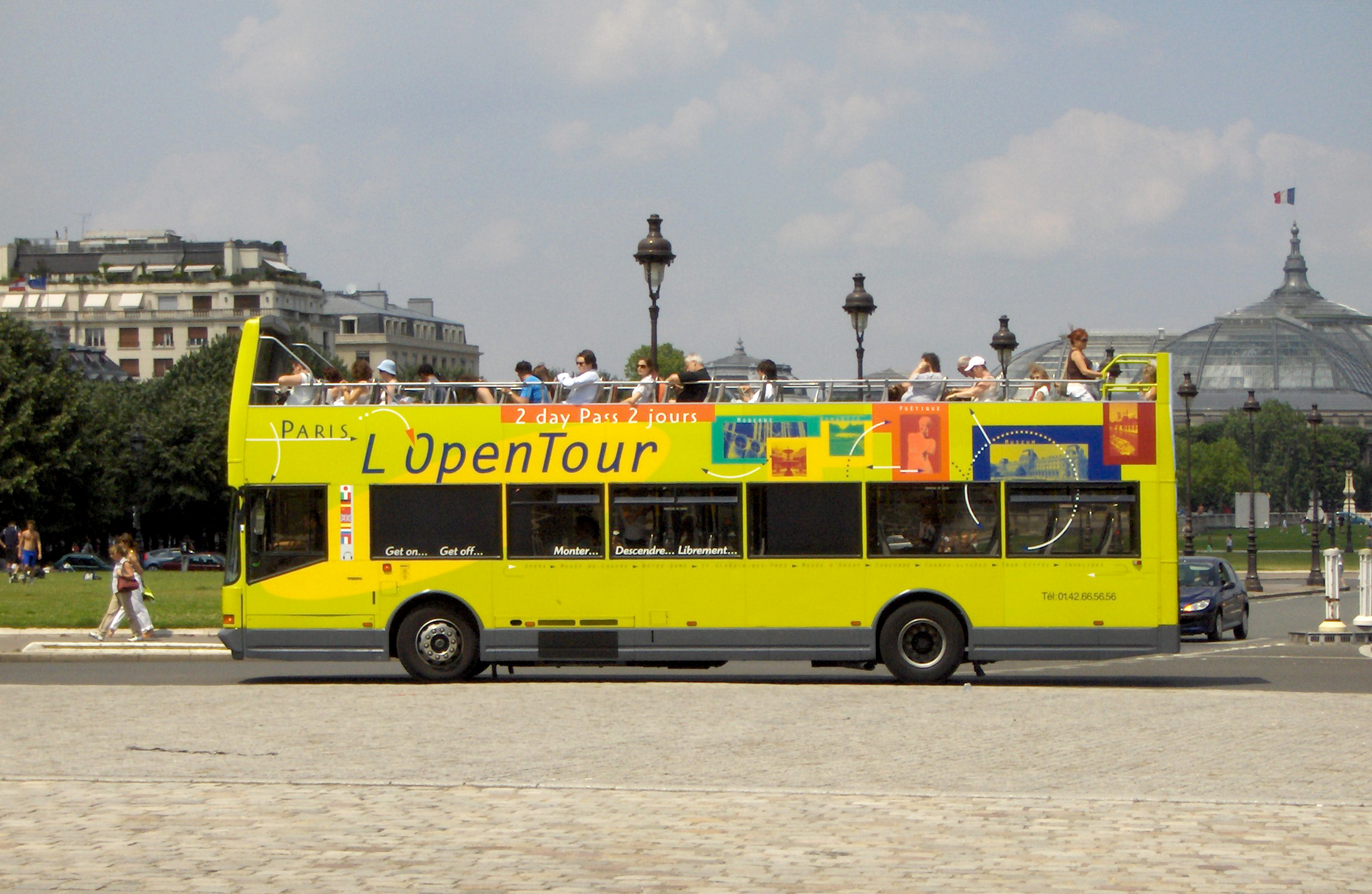 Volvo B10M Tourist Bus . Place des Invalides , Paris , France .